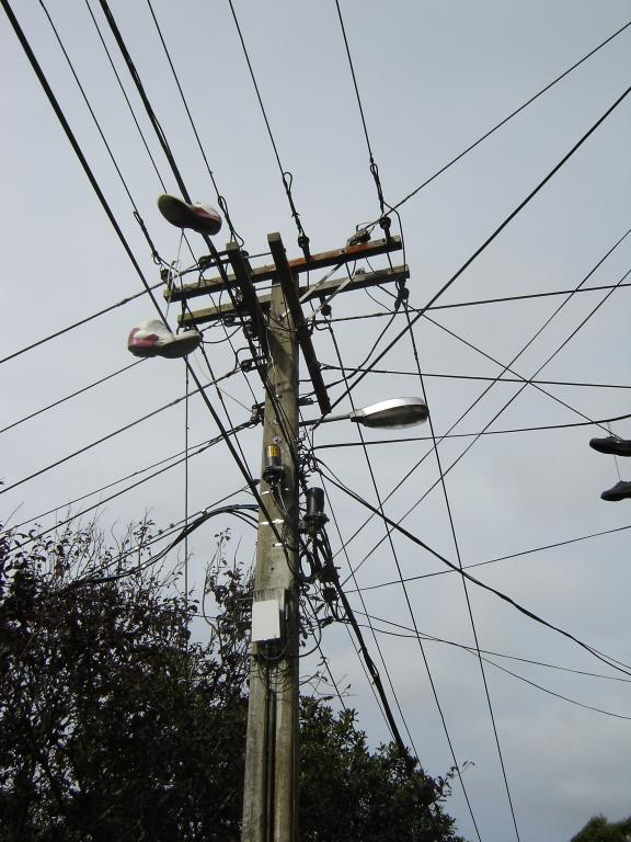 Photograph of a heavily wired telephone and power pole in Wellington, New Zealand. Shoes can be seen hanging on the wires (gang sign).